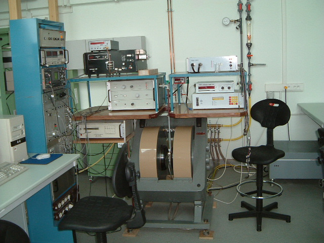 EPR spectrometer Faculty of Biochemistry, Biophysics and Biotechnology Jagiellonian University.